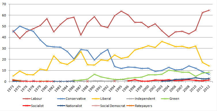 Popular voter share for Manchester local elections between 1973 and 2012. Labour: Labour, Independent Labour Conservative: Conservative, Independent Conservative Liberal: Liberal Party, Independent Liberal, SDP–Liberal Alliance, Liberal Party (UK, 1989), Liberal Democrat, Independent Liberal Democrat, Libertarian Independent: Independent, Freedom to Choose, Natural Law, FAN, LLDCS, Direct Action, Crown Force, Action for Better Local Education Socialist: CPGB, Socialist Unity, Workers Revolutionary, SWP, Communist (Marxist-Leninist), Independent Communist, Socialist Labour, Socialist Alternative, Communist League, Socialist Alliance, Respect, Democratic Socialist Alliance, United Socialist, Left List, TUSC, Socialist Equality Nationalist: British Campaign to Stop Immigration, National Front, BNP, UKIP Green: Ecology, Green Social Democrat: SDP (UK, 1988)